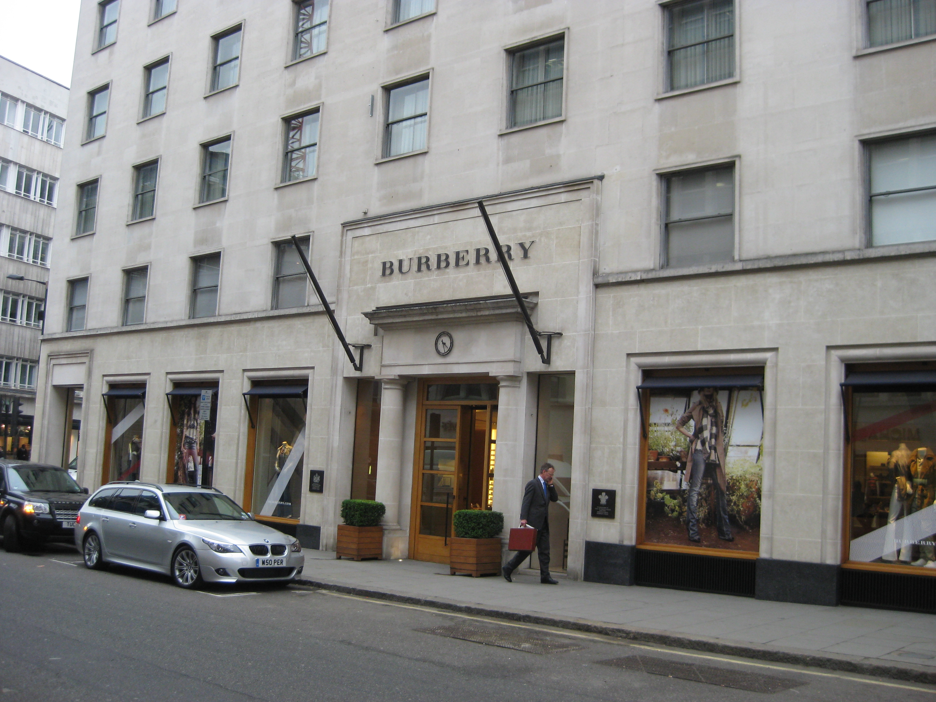 Burberry London Store, 21-23 New Bond Street